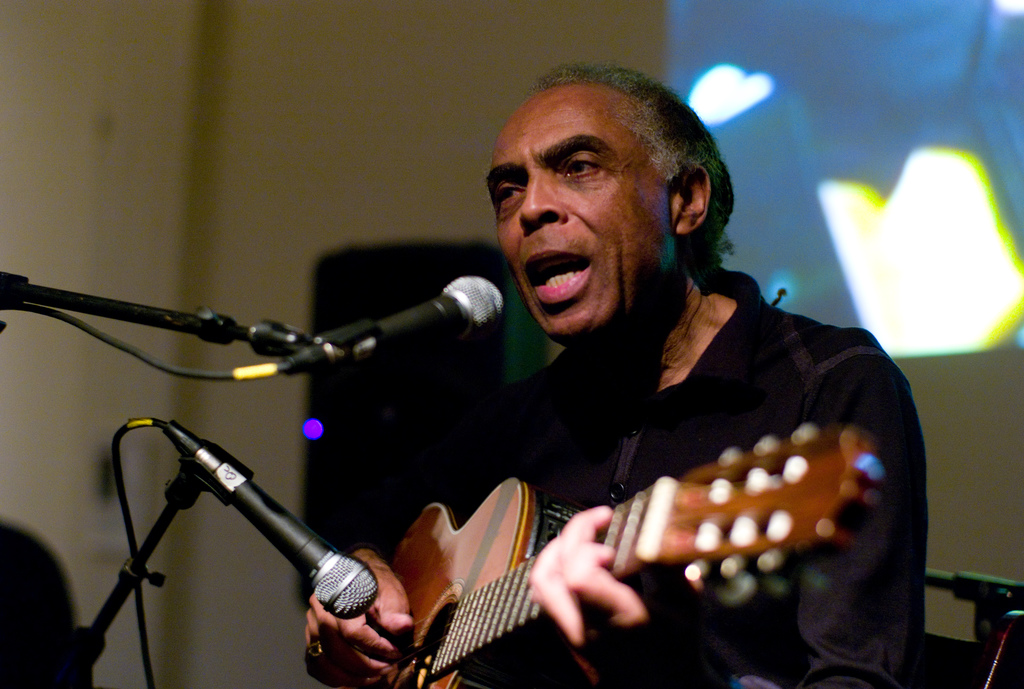 Gilberto Gil singing with guitar.